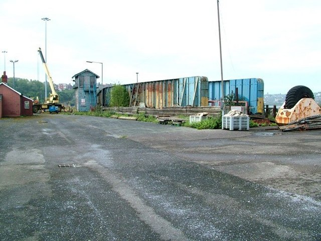 Retractable Bridge (colloquially referred to as a 'rolling bridge') - Barry Docks. This rare example of a hydraulically-operated retractable bridge built by the Darlington Carriage and Wagon Works in the 1880s has been permanently pulled aside and lies rotting on the quay. Along with its control building (often referred to as a 'signal box'), it is now a listed structure. It is one of over 1,450 movable bridges that I have recorded for my historical website There were at one time two of these bridges in Barry Docks, plus a swingbridge and a submersible bridge (floatable caisson), the latter to seal off the drydock parallel with the Lady Windsor lock. All bore a single line rail track for transits across the south side of the docks except for the swingbridge which permitted road/rail traffic to cross the narrow ship corridor between Nos.1 & 2 docks but except for the swingbridge, were little used after World War II.